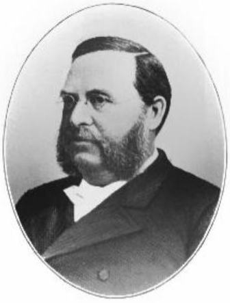 Portrait of Thomas May Peirce from Men of the Century: An Historical Work, 1896, page 202